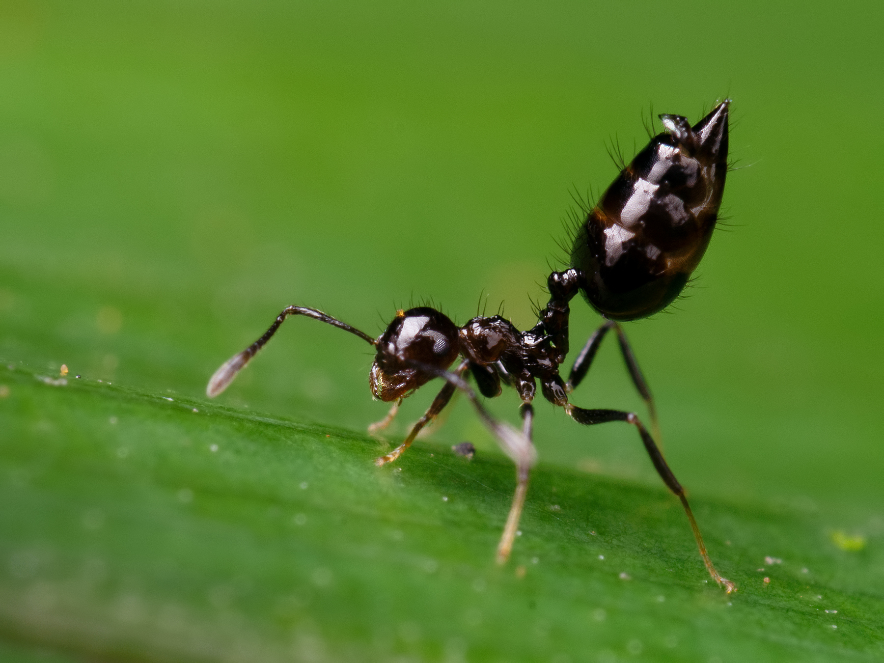 Macro of a crematogaster ant, predatory, with the abdomen raised in defensive position. From the atlantic forest (rainforest) of Salto Morato reserve, Paraná, Brazil.